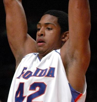 photo taken flickr user Zach Klein source: [1] Cropped by User:Quadzilla99